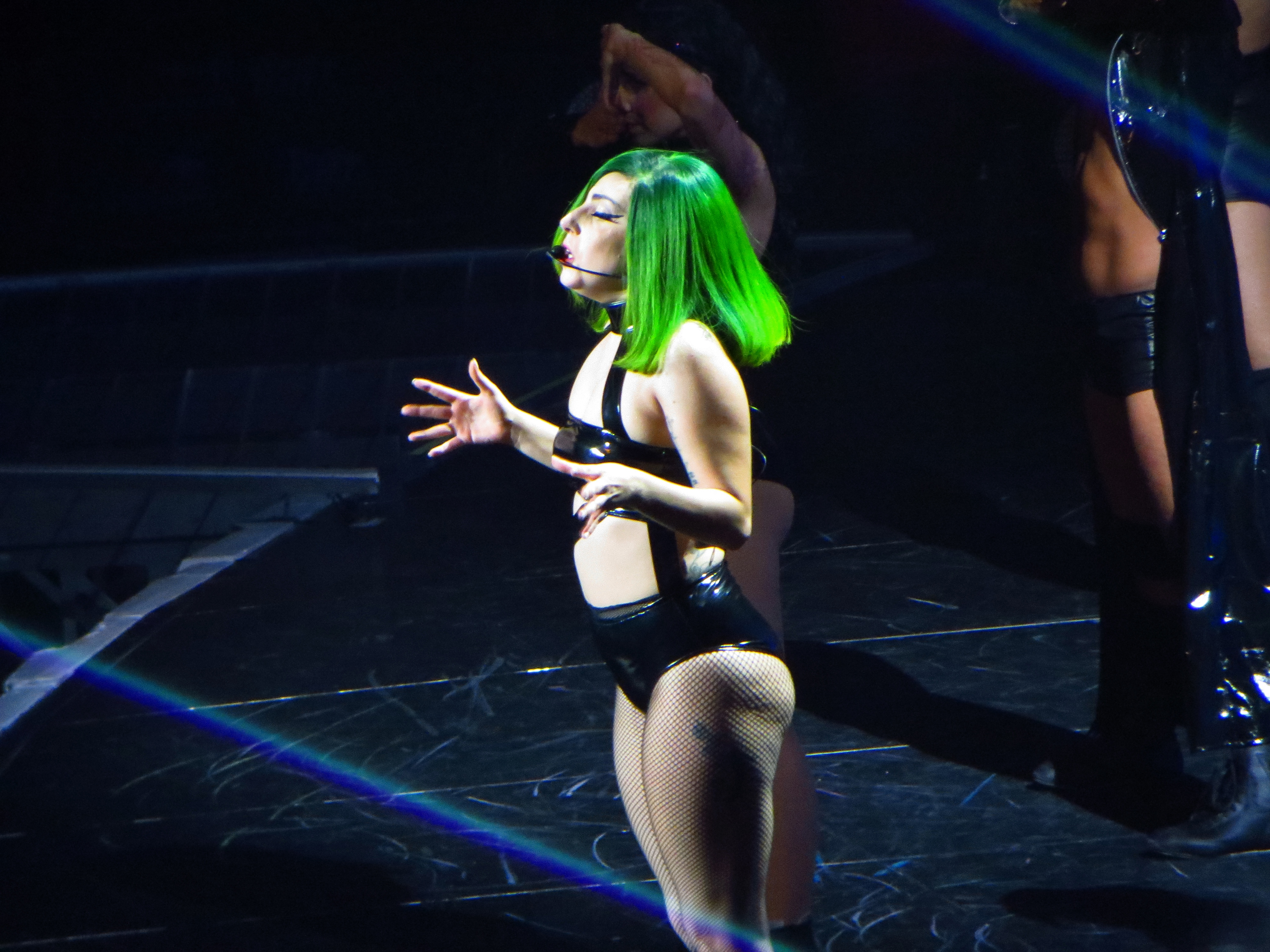 Lady Gaga, ARTPOP Ball Tour, Bell Center, Montréal, 2 July 2014 (89) Gaga performing on ArtRave: The Artpop Ball tour